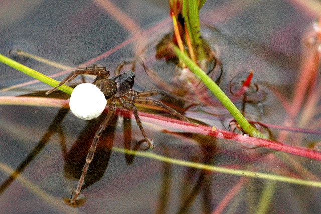 female Pardosa agricola with egg sac, from Commanster, Belgian High Ardennes .